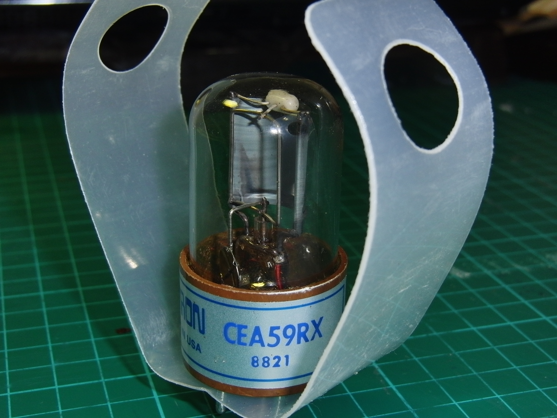 Phototube Cetron CEA59RX